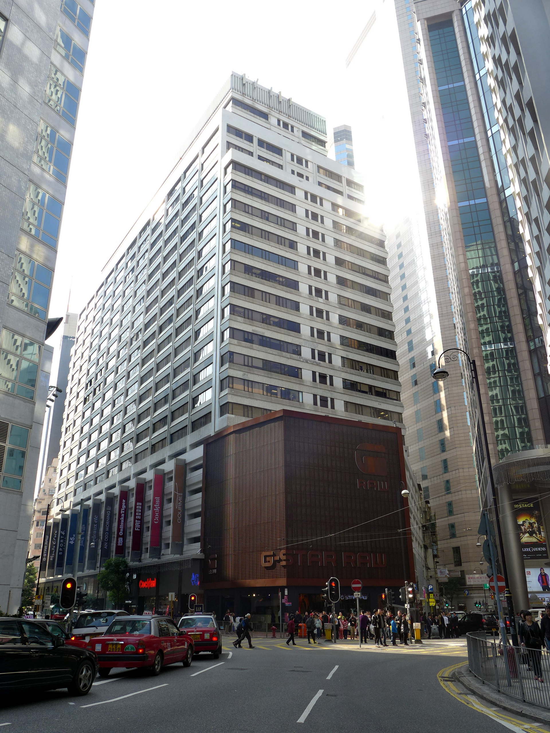 Leighton Centre